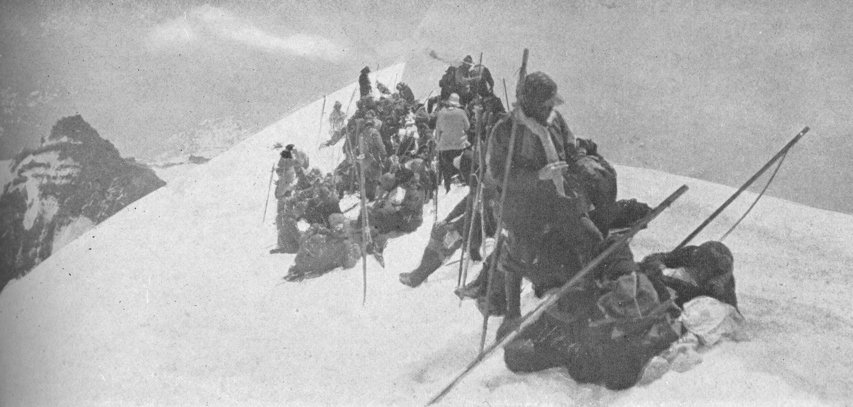 A photo of The Mountaineers club taking a lunch break on on the White Glacier of Mount Rainier in 1909